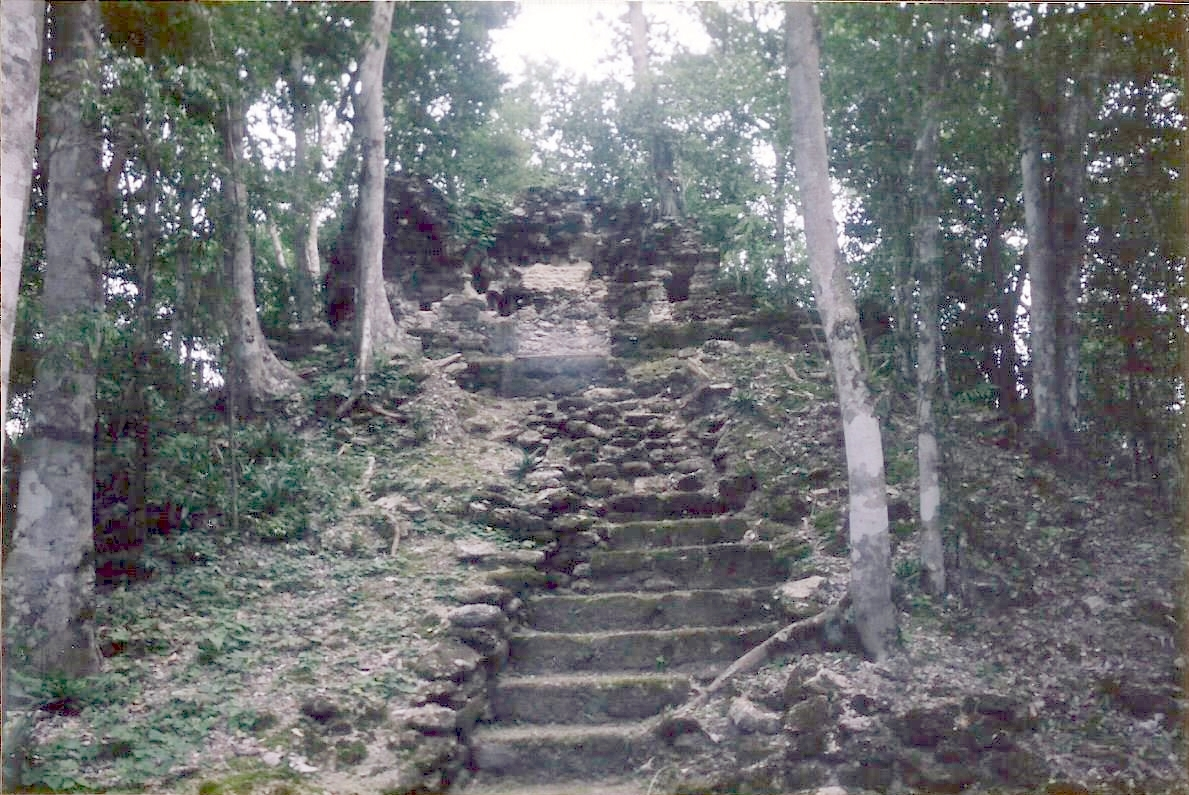 Pyramid at Nakbe.